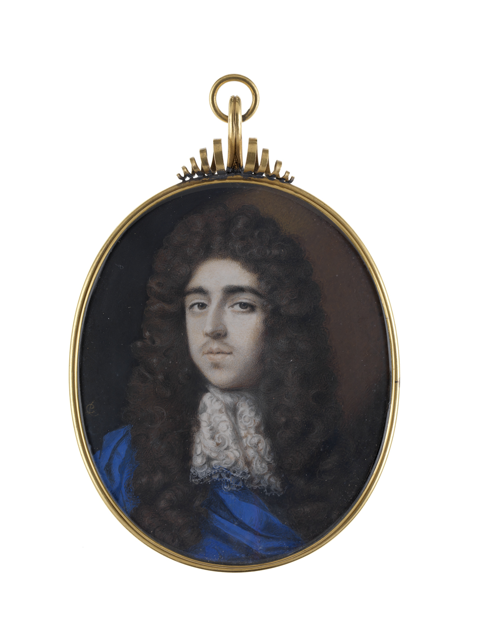 This miniature is inscribed twice on the reverse: 'Dalkeith' in pencil and ‘The Earl of Dalkeith’, in scratched form, and the sitter is James Scott, eldest surviving son of James Scott, Duke of Monmouth (1649 -85). Monmouth was the eldest illegitimate son of King Charles II by Lucy Walter